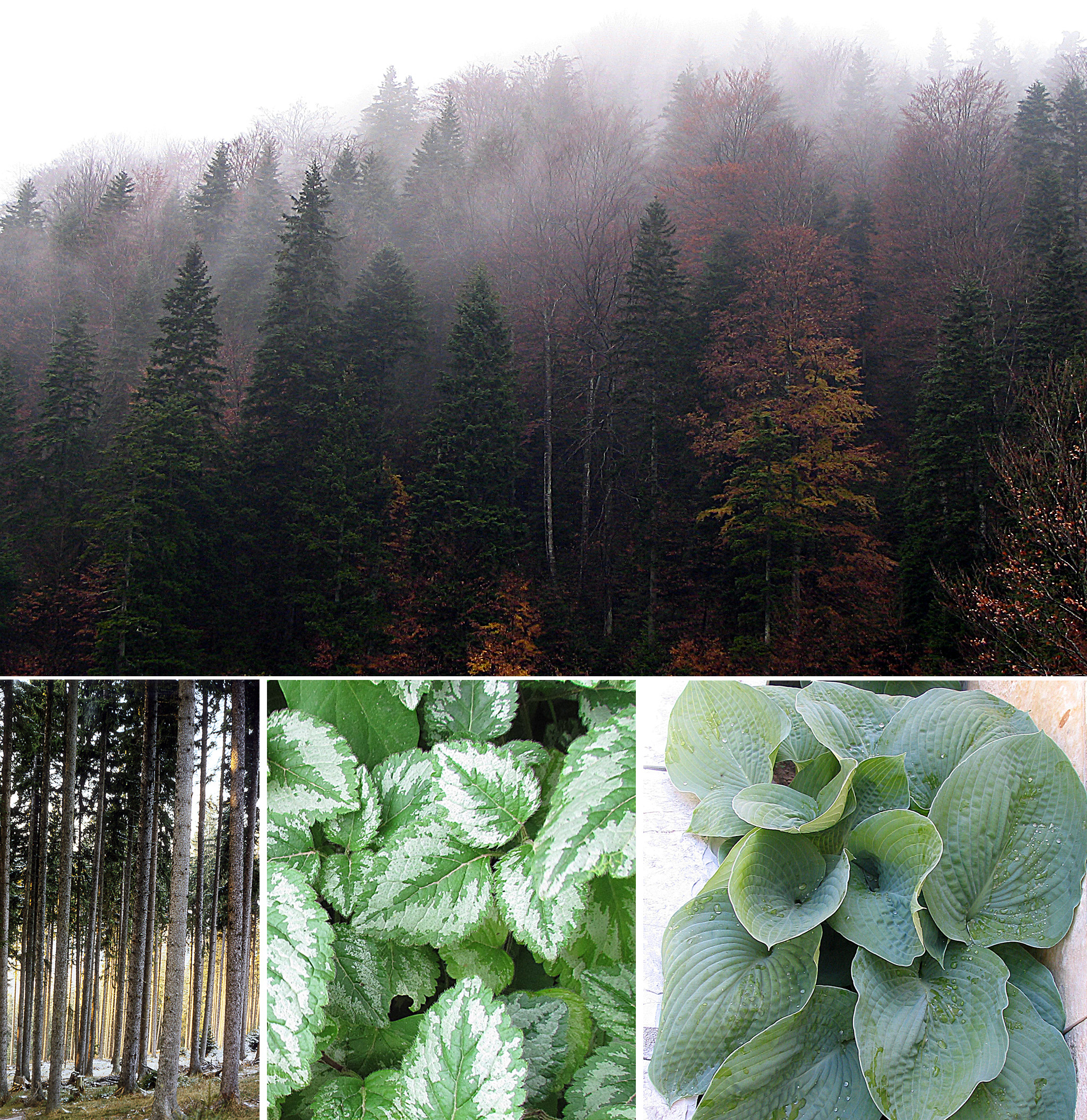 Sciophytes: forest of European silver fir and European beech: forest of Norway spruce; Lamium maculatum leaves, and Hosta leaves.